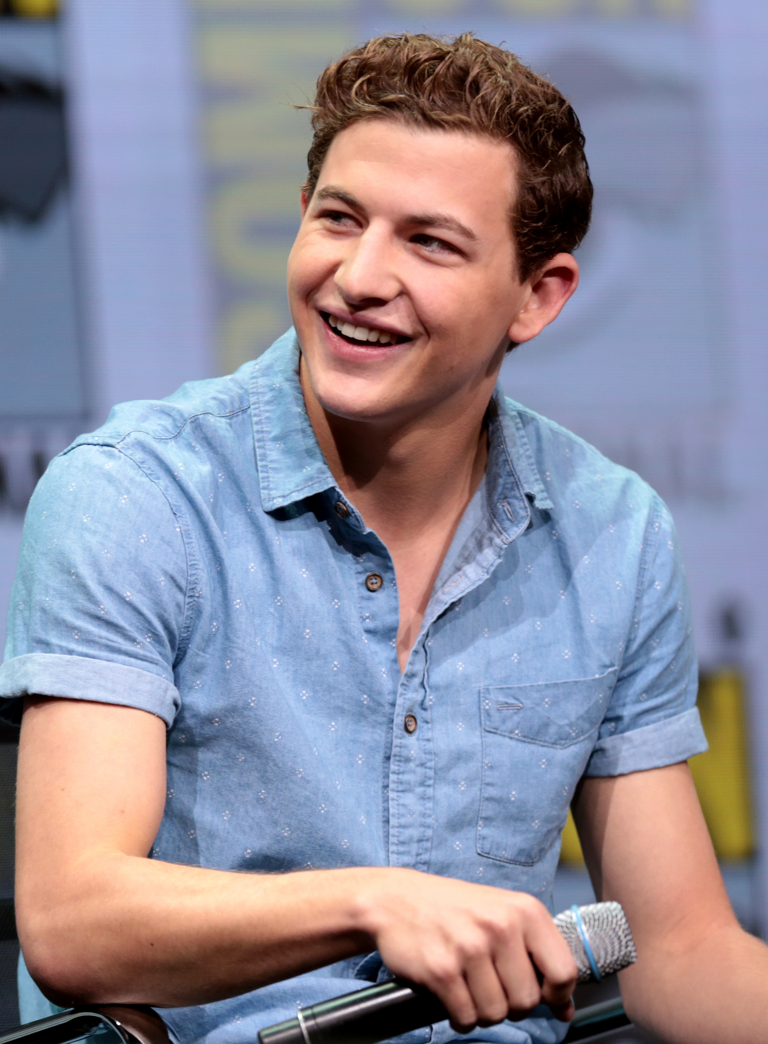 Tye Sheridan speaking at the 2017 San Diego Comic-Con International in San Diego, California.